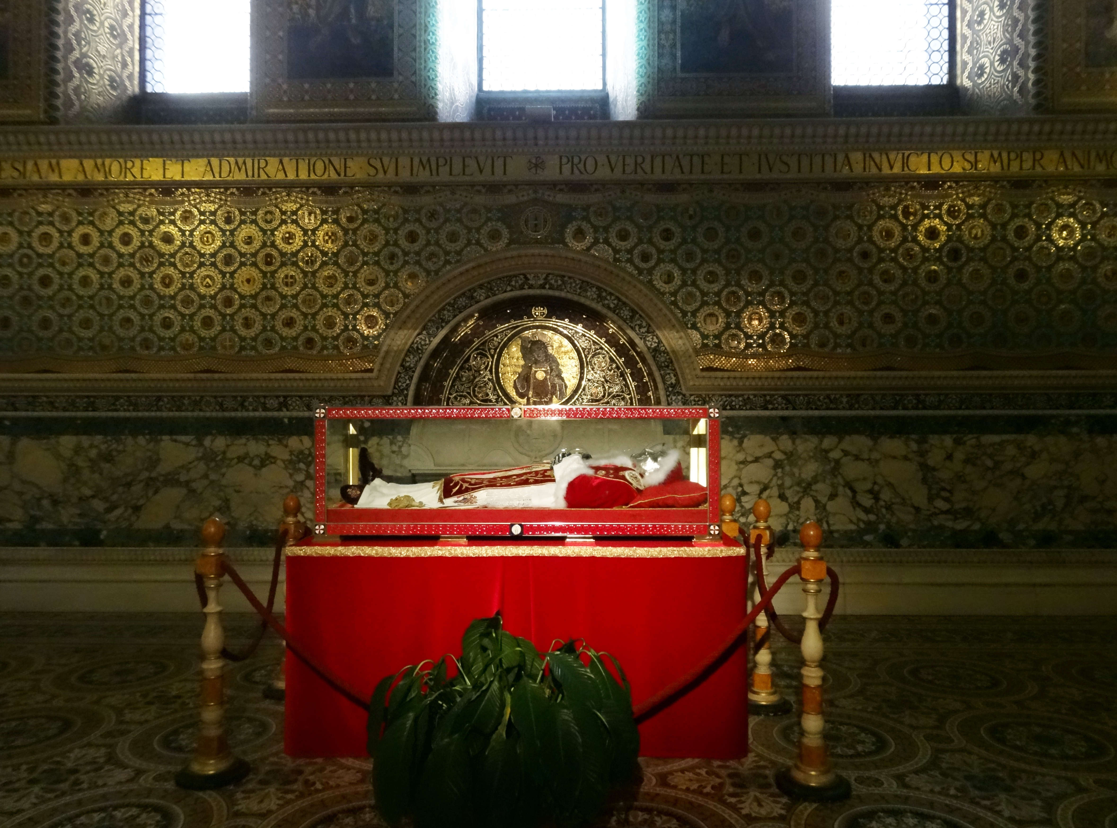 Tomba papa pio IX